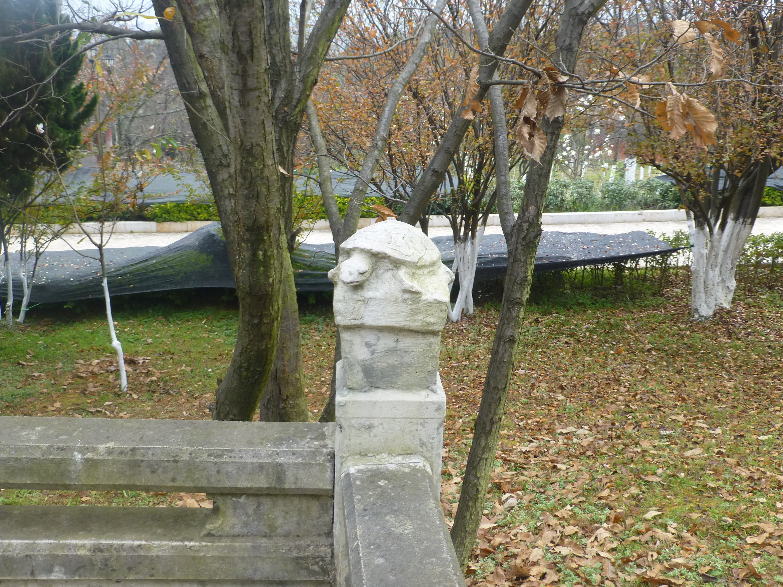 Zheng He Park on the Moon Mountain (Yue Shan) in Kunyang